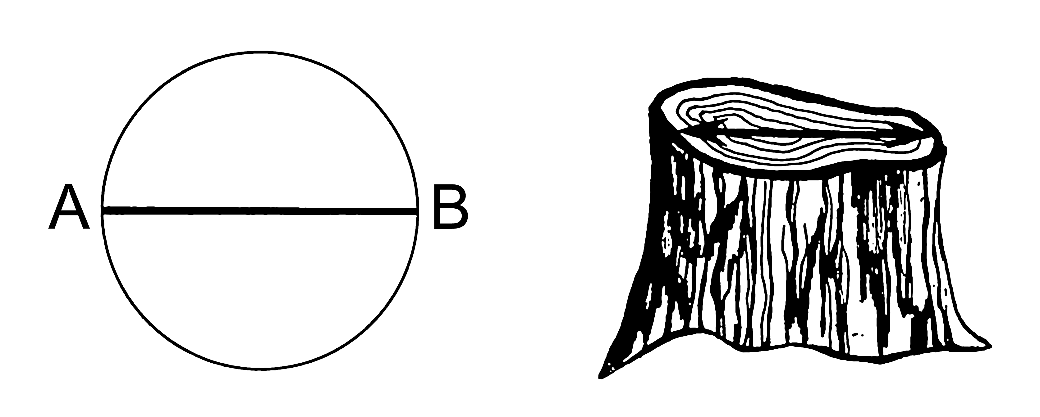 Line art drawing of diameter measurements on a circle and a tree trunk.